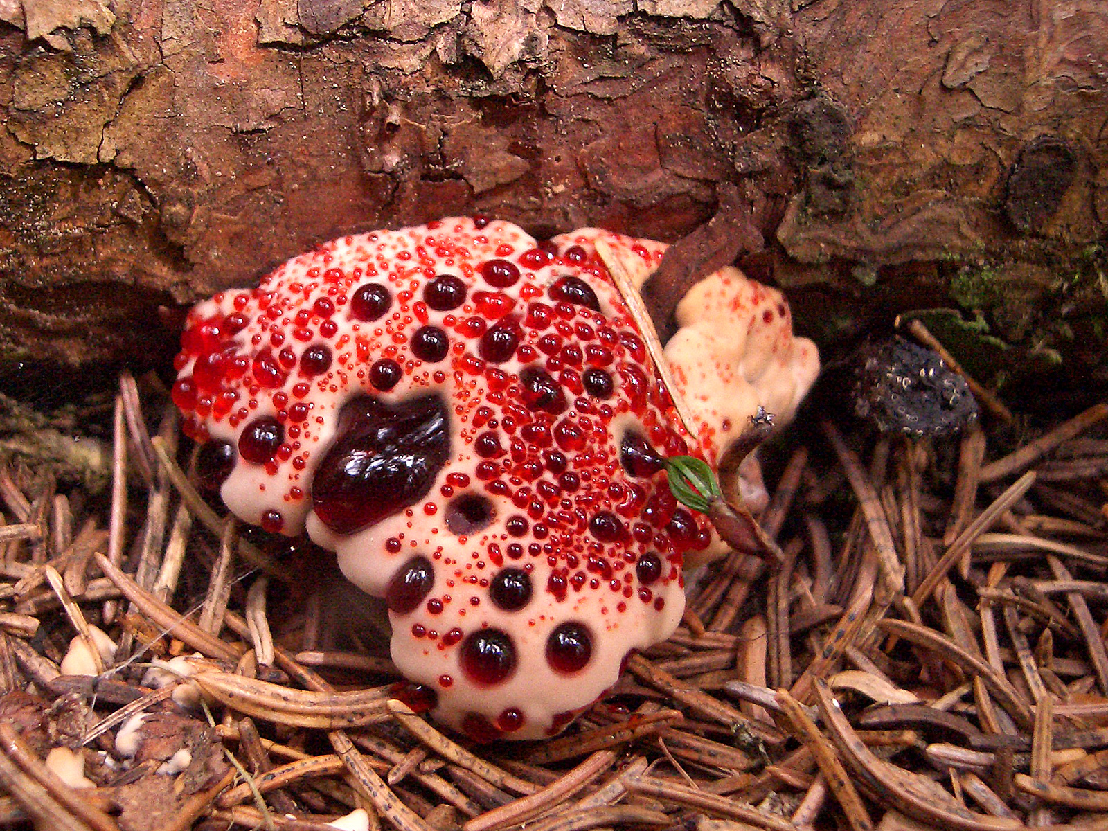 Hydnellum peckii - Young specimen - Bellamonte (TN), Italy - 17/08/2005 - personal photo - B.Baldassari